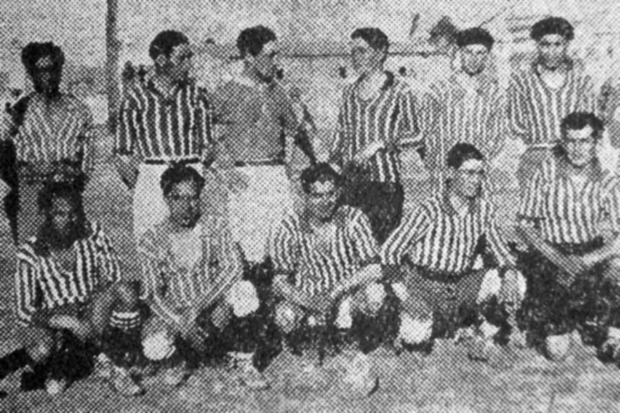 A Godoy Cruz A. Tomba football team.